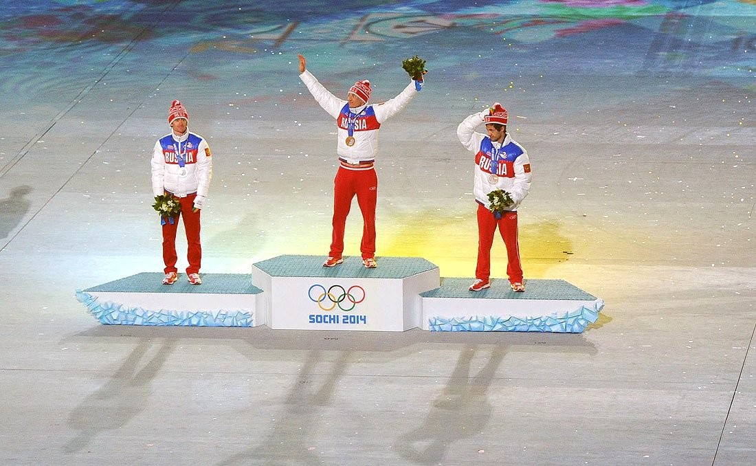 Men's 50 km Mass Start Free - Cross-Country - Sochi 2014 (at the closing ceremony) Gold: Alexander Legkov, Russian Federation. Silver: Maxim Vylegzhanin, Russian Fed. Bronze: Ilia Chernousov, Russian Fed. (